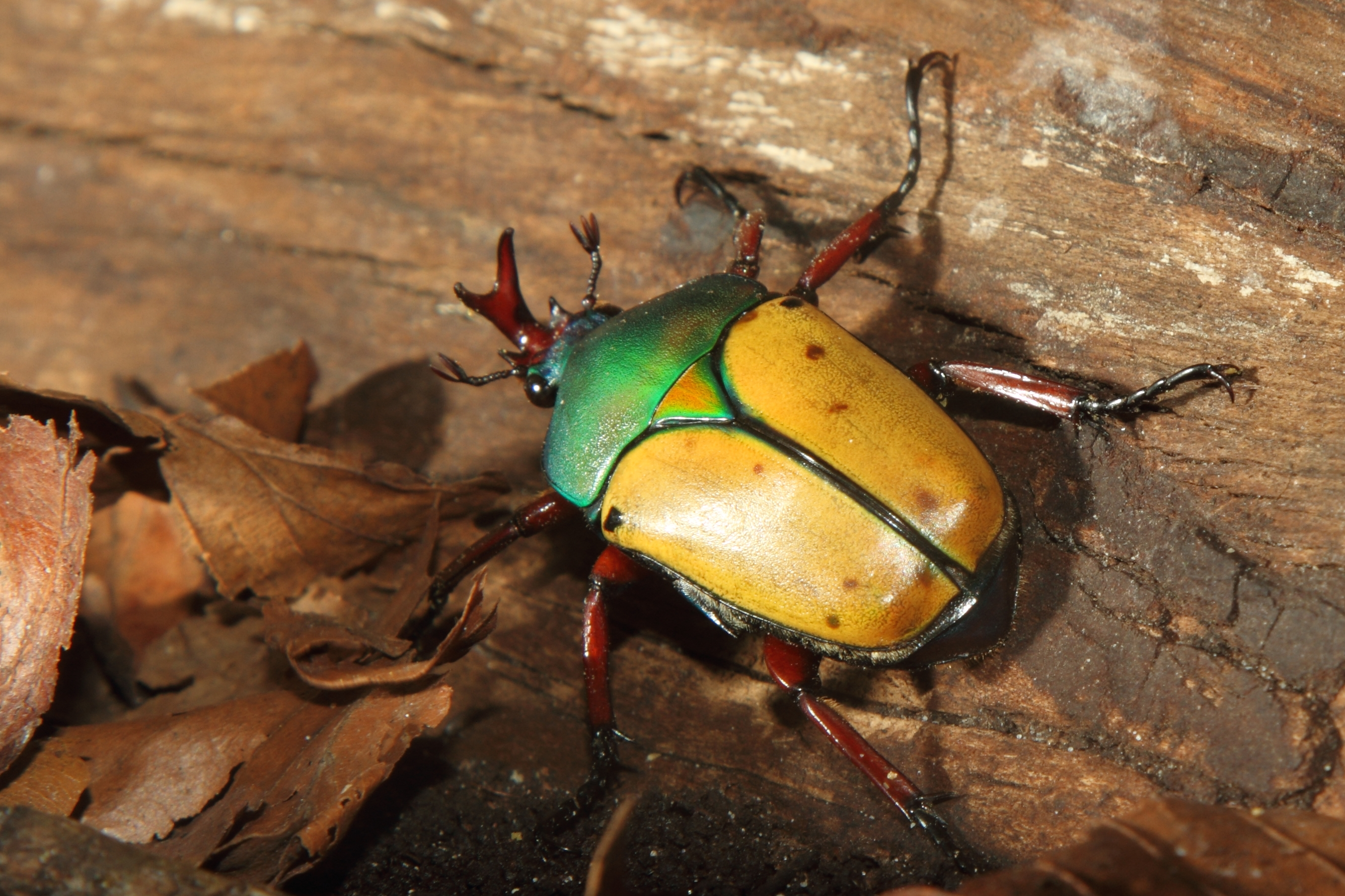 Jade-headed Buffalo Beetle at Diergaarde Blijdorp (Blijdorp Zoo), Rotterdam, The Netherlands.